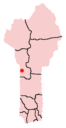 Bassila, Benin Location Map; created with the GIMP. Made by User:Acntx.